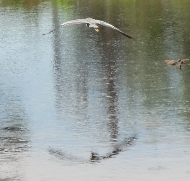 Heron doesn't like being gawked at in Mother Brook